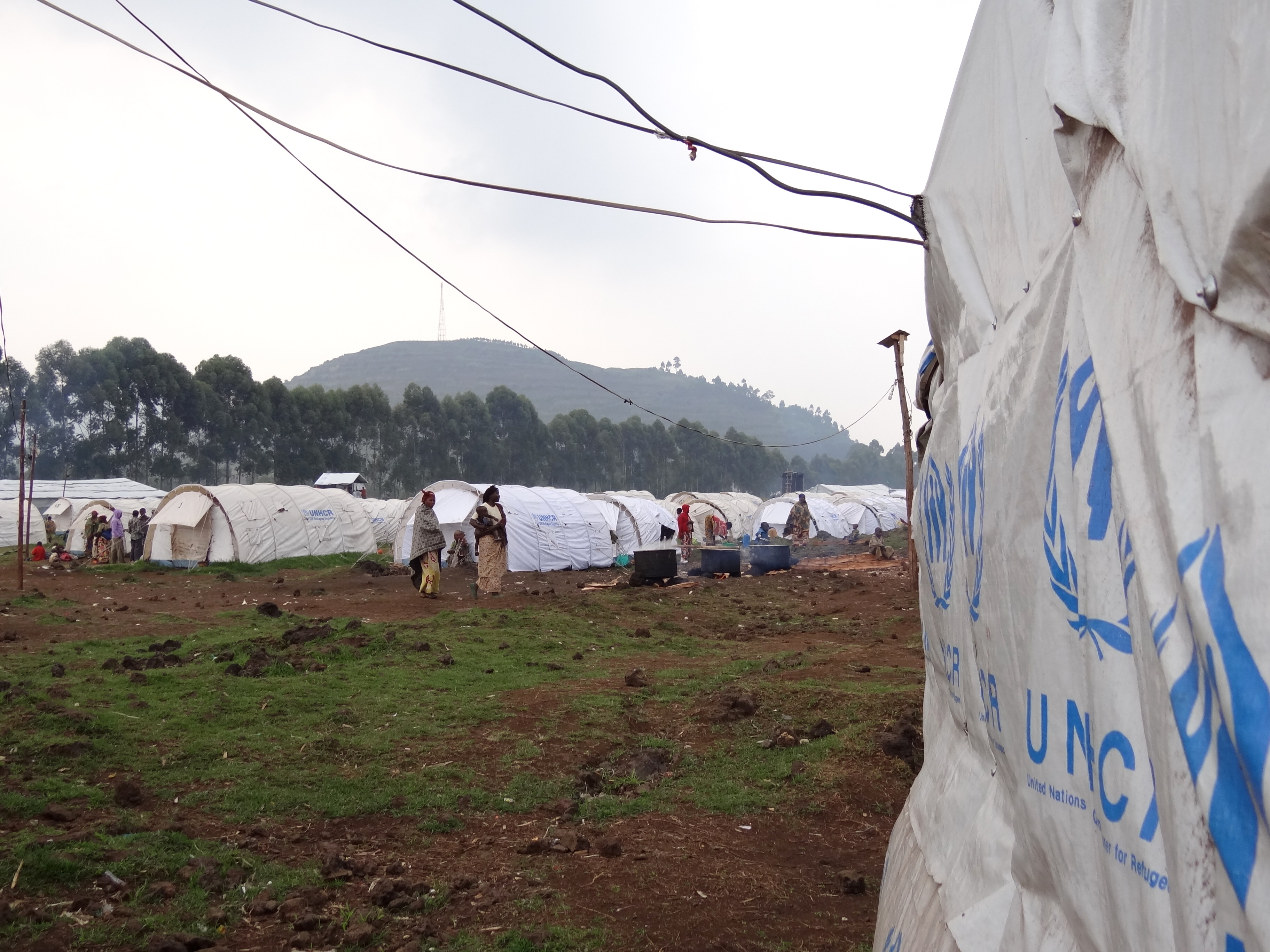 Nyakabanda Transit Center - For Congolese Refugees - Outside Kisoro - Southwestern Uganda - 03